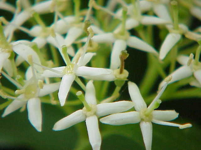 Species: Cornus sanguinea Family: Cornaceae Image No. 2